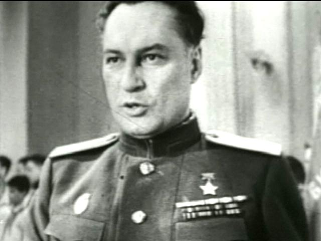 Andrei Abrikosov as armу man in Red Necktie (1948)